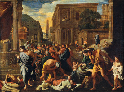 The Plague in Ashdodlabel QS:Len,"The Plague in Ashdod" label QS:Lfr,"La Peste à Ashdod"